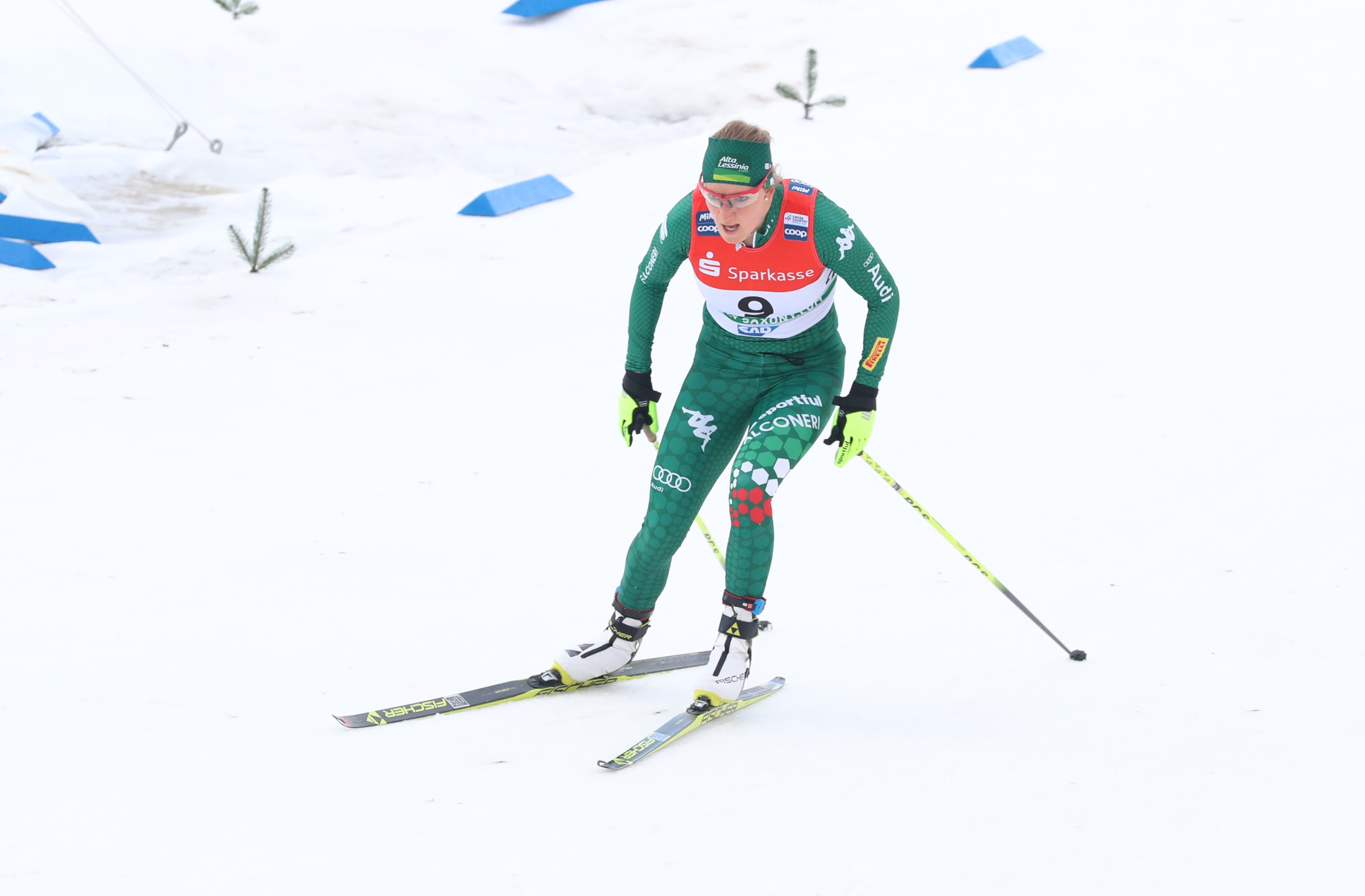 Women's Qualification at the FIS Cross-Country World Cup Dresden 2019 (1.6 km Free Sprint)